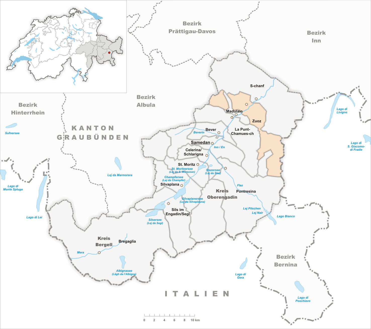 Municipality Zuoz